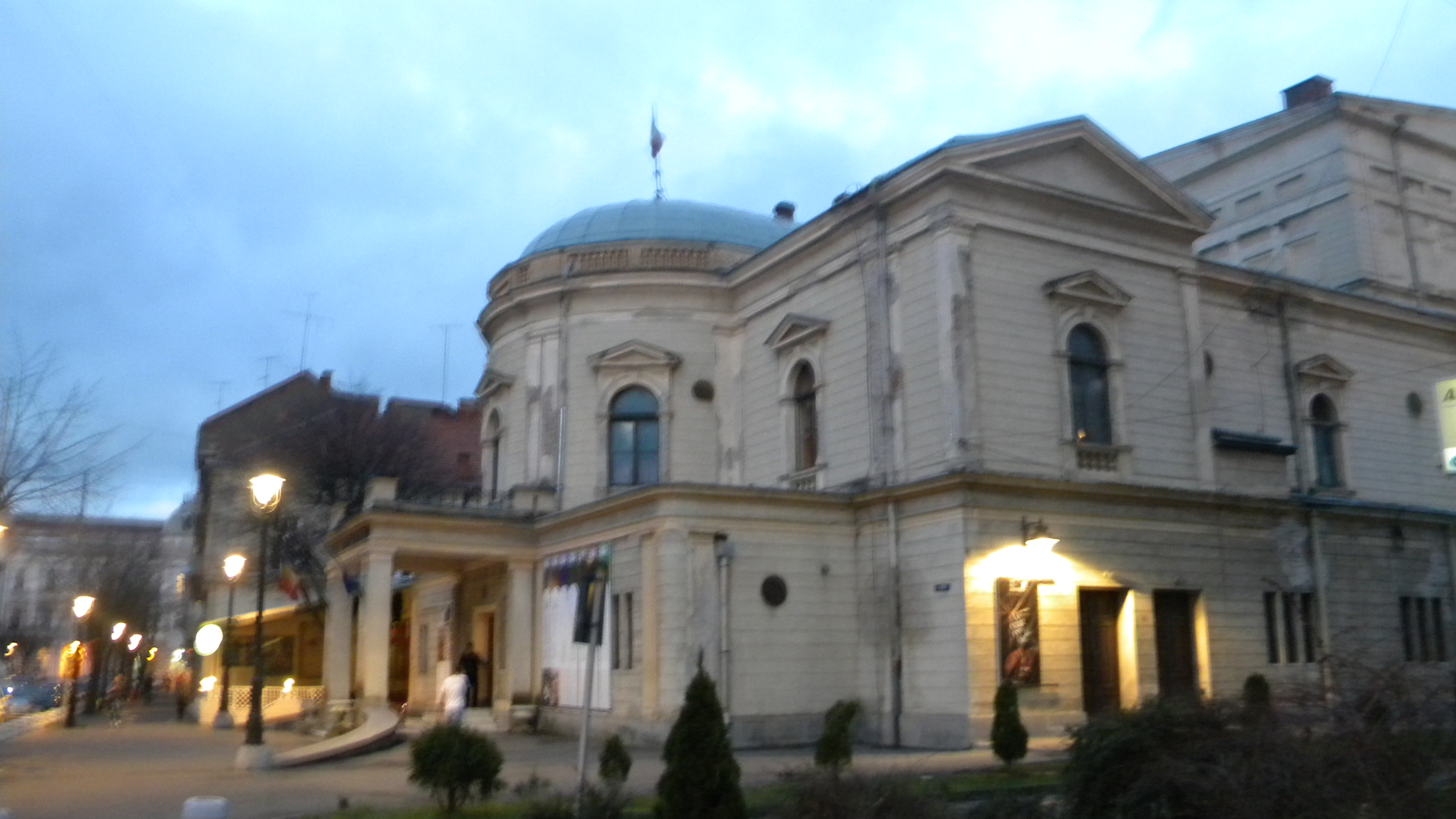 North Theater